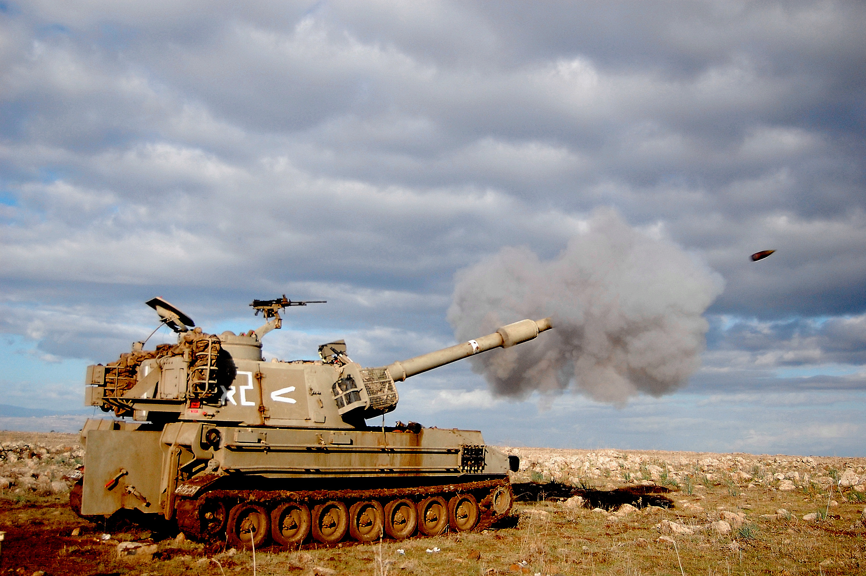 a cannon firing - M109 self-propelled howitzer